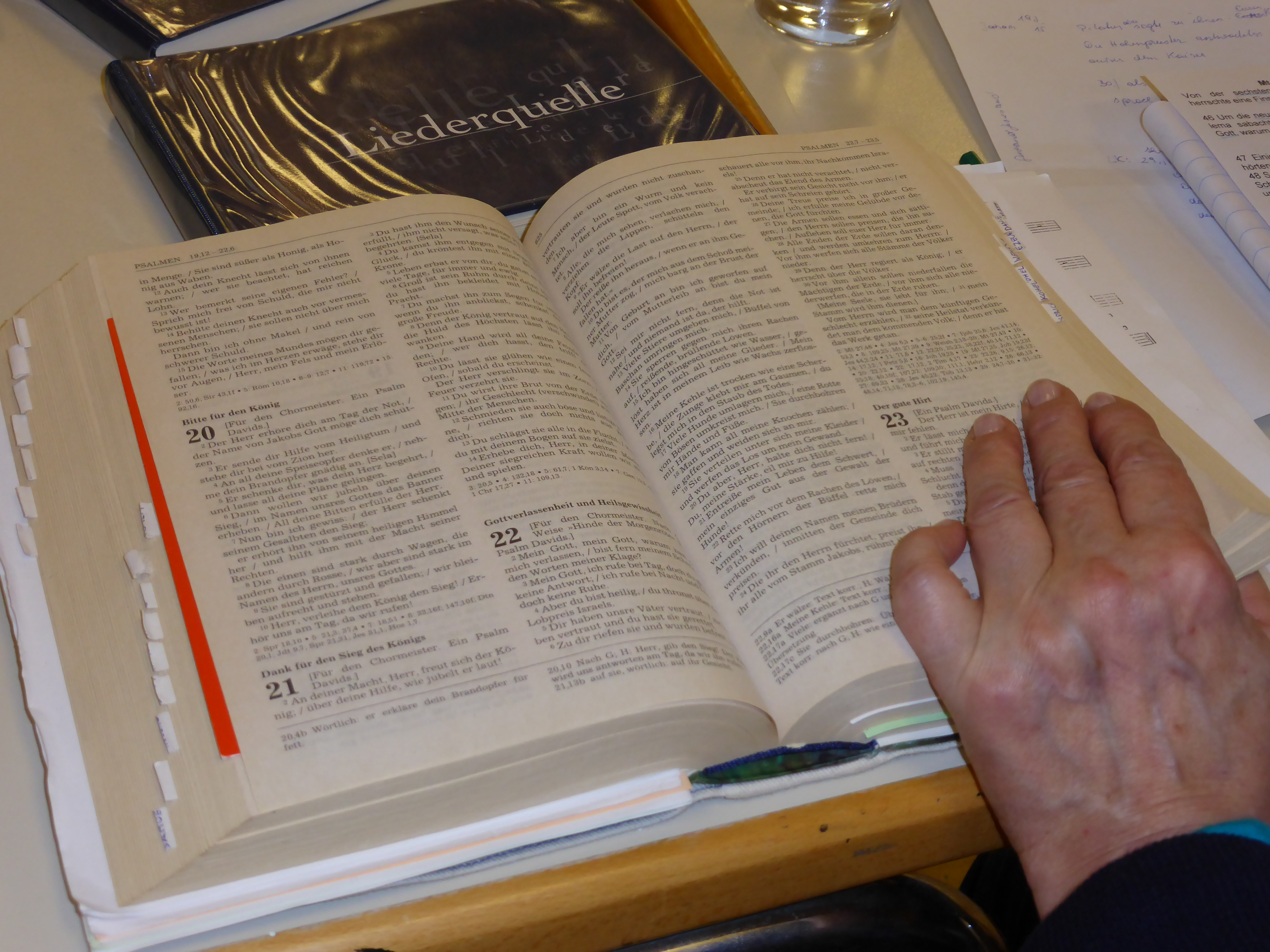 Hilfen zum Bibellesen